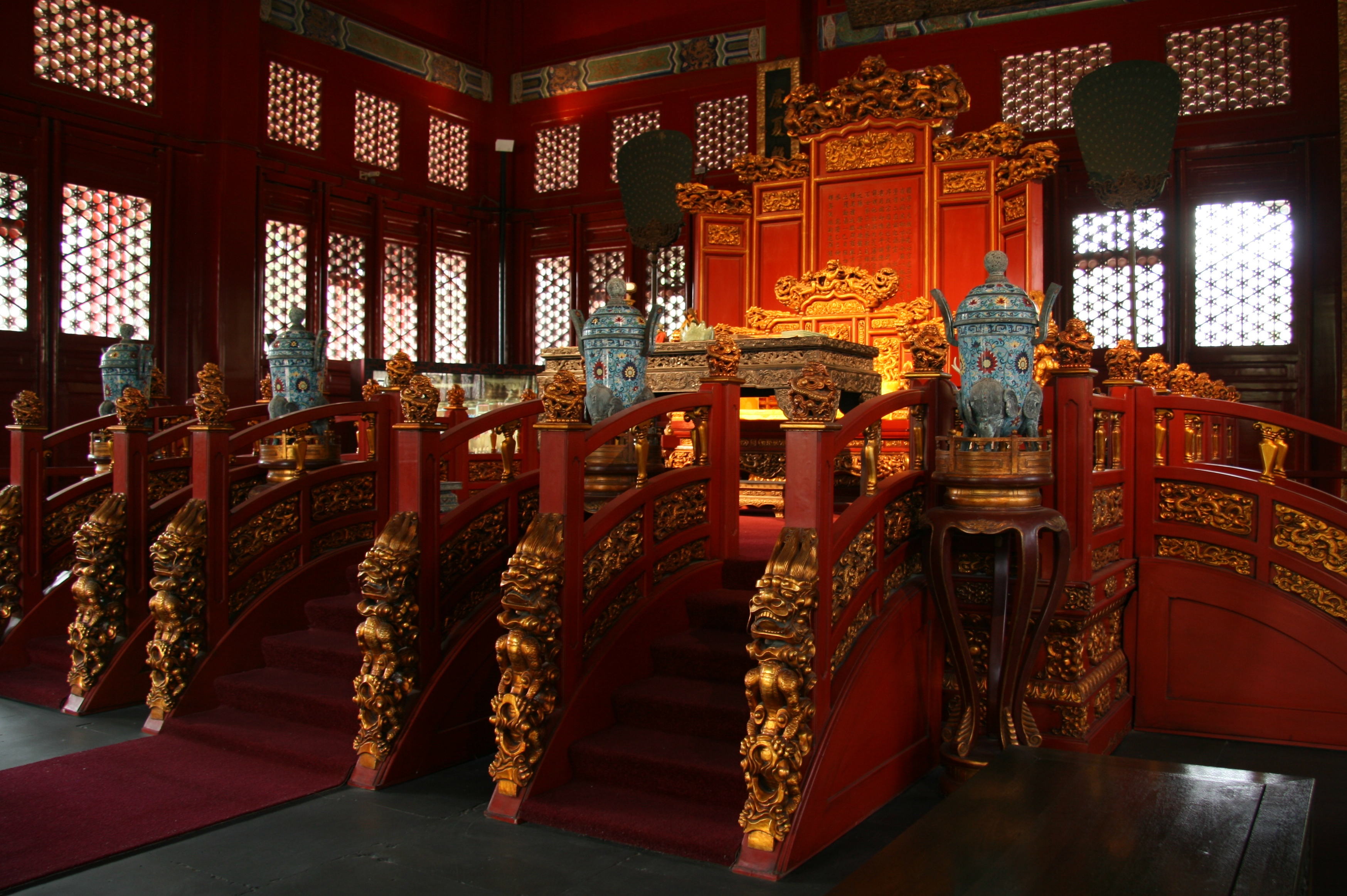 Inside one of the reading rooms at the Guozijian (imperial college) in Beijing